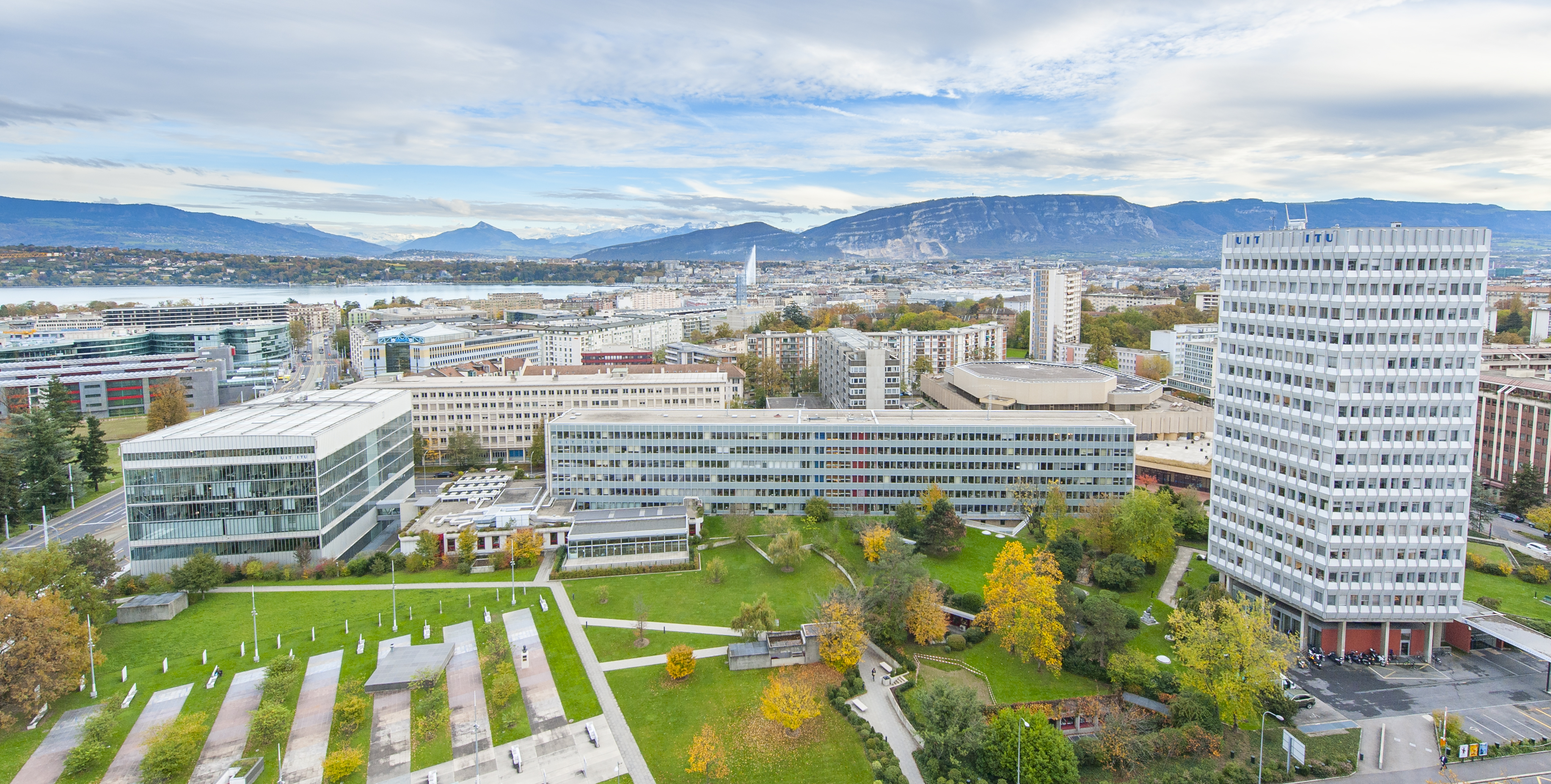 International Telecommunication Union (ITU) Buildings, Geneva, Switzerland